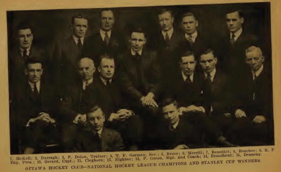 Picture of 1920 Ottawa Senators Stanley Cup champions.